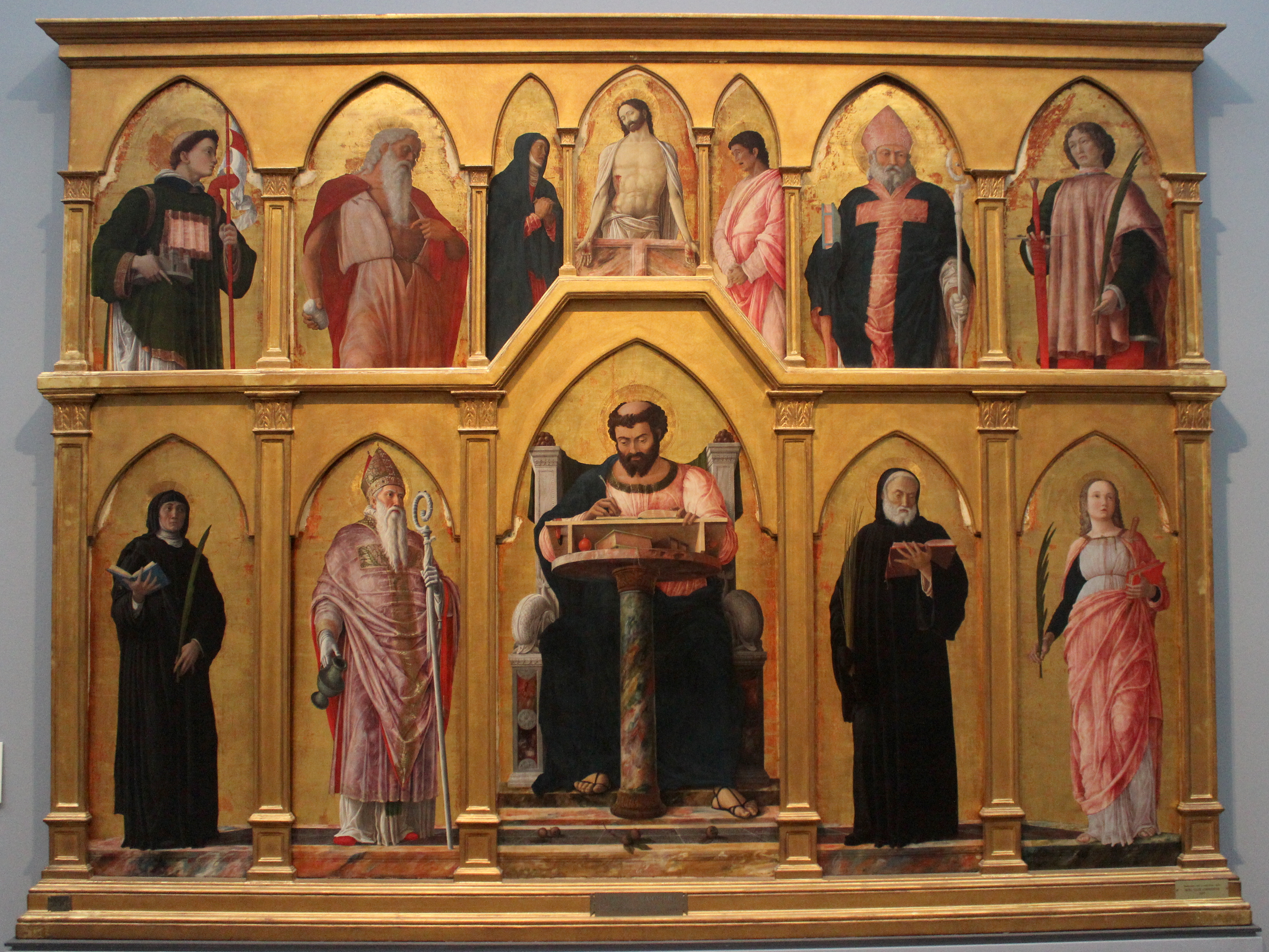 In the altarpiece are painted many benedictine saints